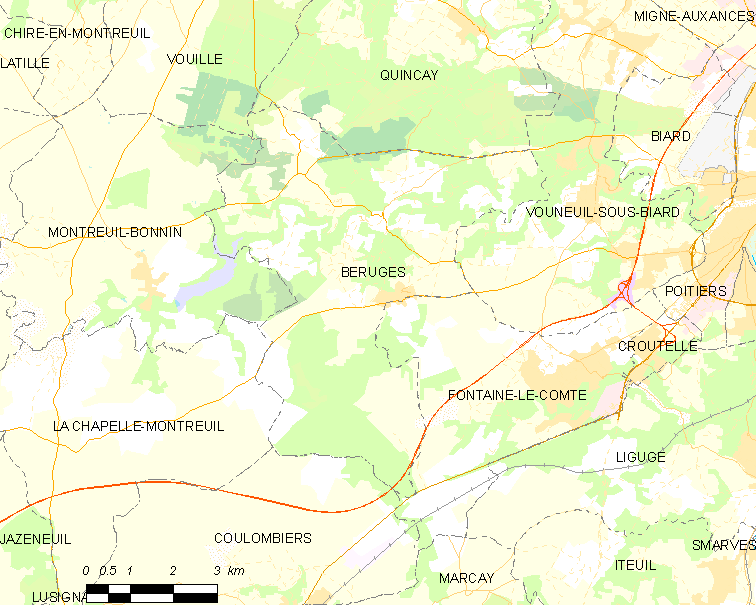 Map of French municipality Béruges